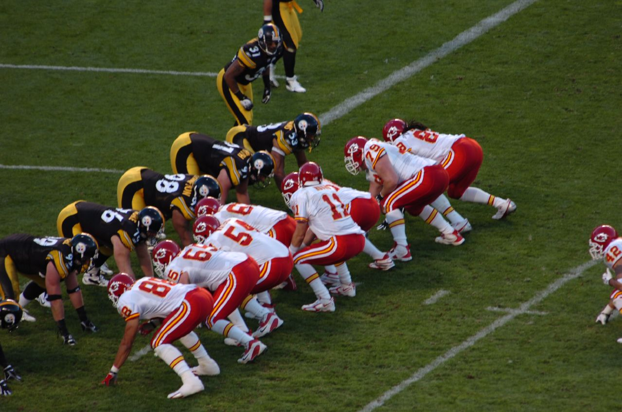 The Kansas City Chiefs lineup on offense for a play against the Pittsburgh Steelers defense.